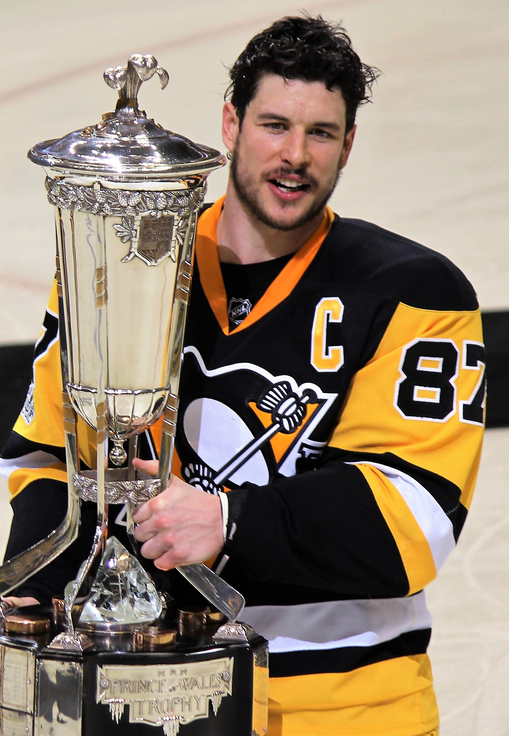 Pittsburgh Penguins captain Sidney Crosby accepts the Prince of Wales Trophy following the Pens double overtime win over the Ottawa Senators in game 7 of the Eastern Conference Final, May 25, 2017, at PPG Paints Arena in Pittsburgh, PA.